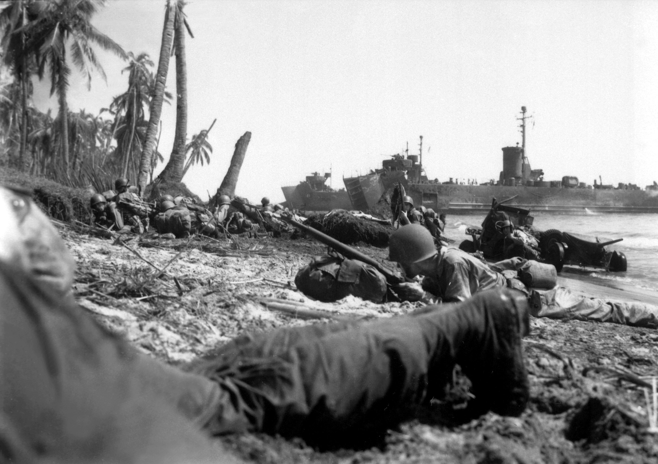 "Hug the dirt, mates, or you'll get your back scratched." Yankee invaders bellyflop into the sands of Leyte Island's beaches, after rushing ashore from the landing barges of a Coast Guard-manned invasion transport. October 1944. (Coast Guard) Exact Date Shot Unknown NARA FILE #: 026-G-3566 WAR & CONFLICT BOOK #: 1208